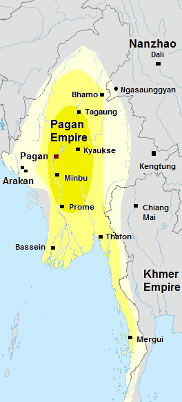 Kingdom of Pagan at Sithu II's reign circa 1200 Based on Lieberman (2003), pp. 91-92 and Aung-Thwin (1985), p. 100. There is a little mistake in this map. In 1200, in North-East, that's no more Nanzhao (737 — 937), but instead, Dali Kingdom (937 – 1253).